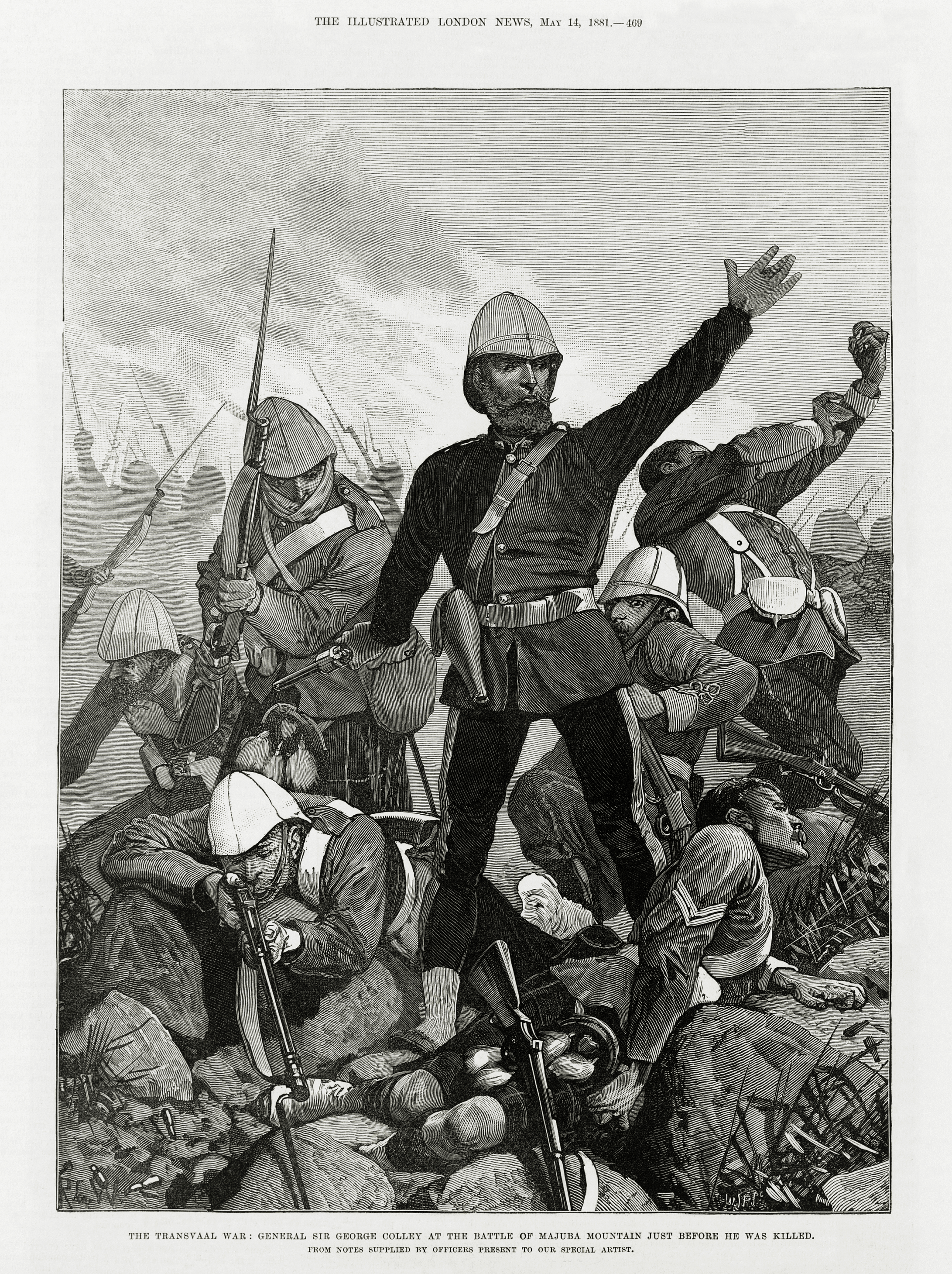 The Transvaal War: General Sir George Colley at the Battle of Majuba Mountain Just Before He Was Killed. See File:Melton Prior - Illustrated London News - The Transvaal War - General Sir George Colley at the Battle of Majuba Mountain Just Before He Was Killed original.jpg for attached article.